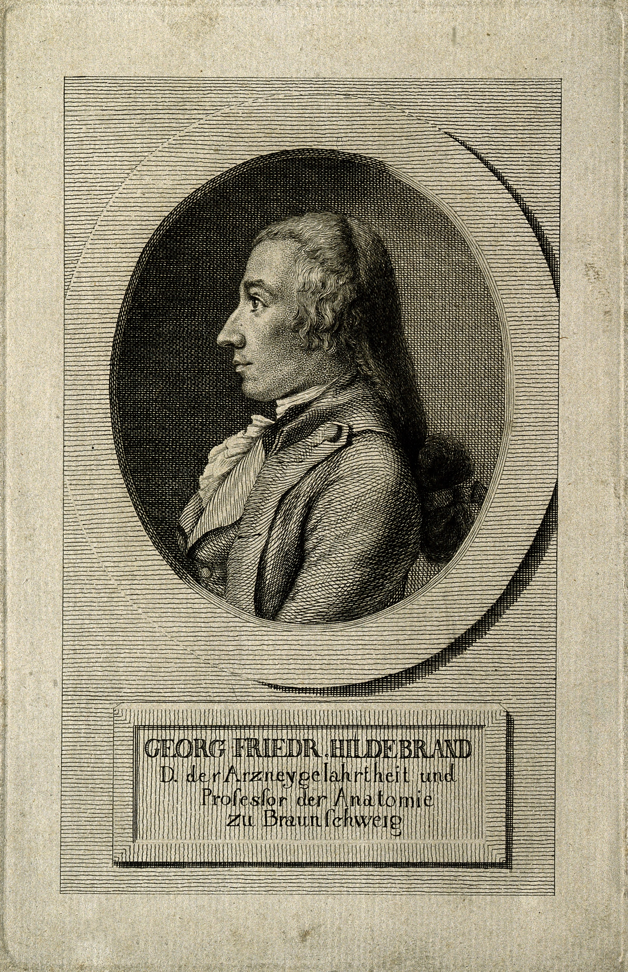 Georg Friedrich Hildebrandt. Line engraving. Iconographic Collections Keywords: portrait prints; engravings